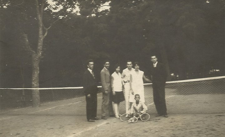 The first tennis court in Vranje, 1924 Српски (ћирилица): Први тениски терен у Врању, 1924.